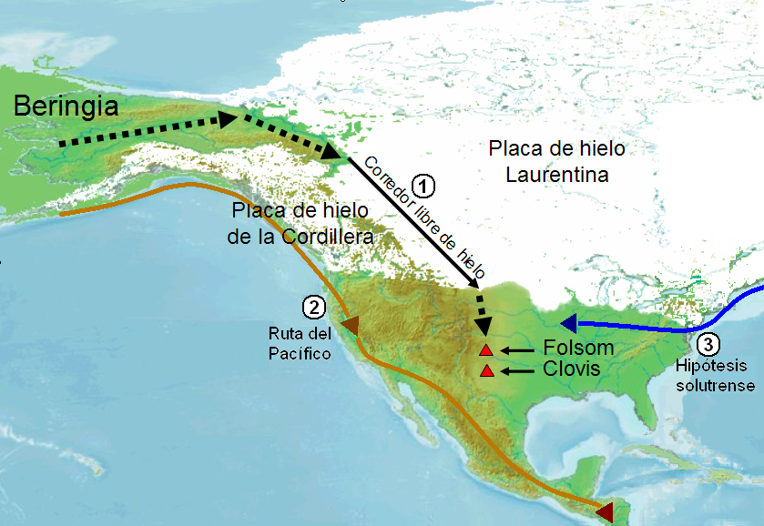 3 hypothesis on Paleo-indians settling